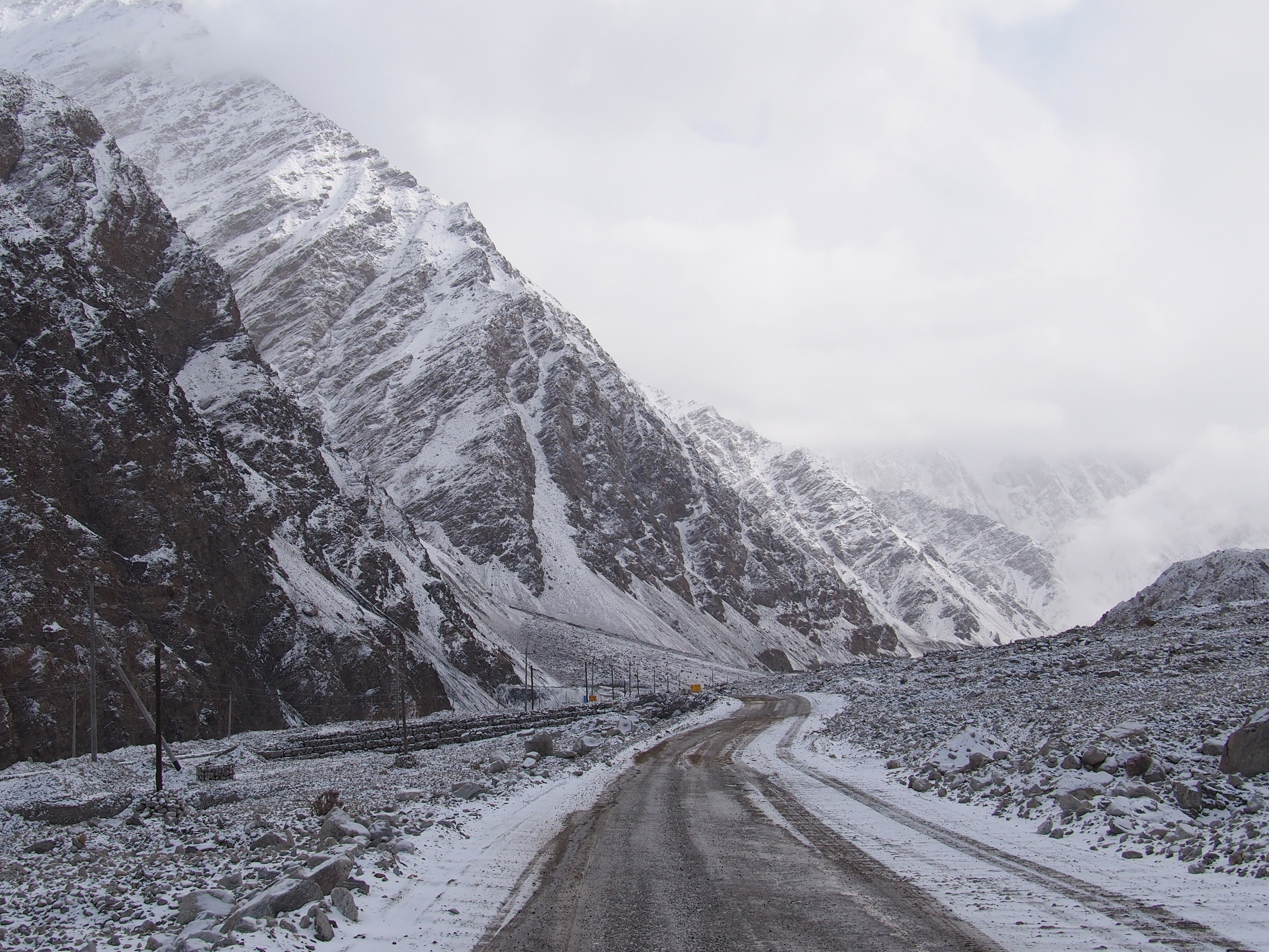 314国道 - National Highway 314 - 2015.04